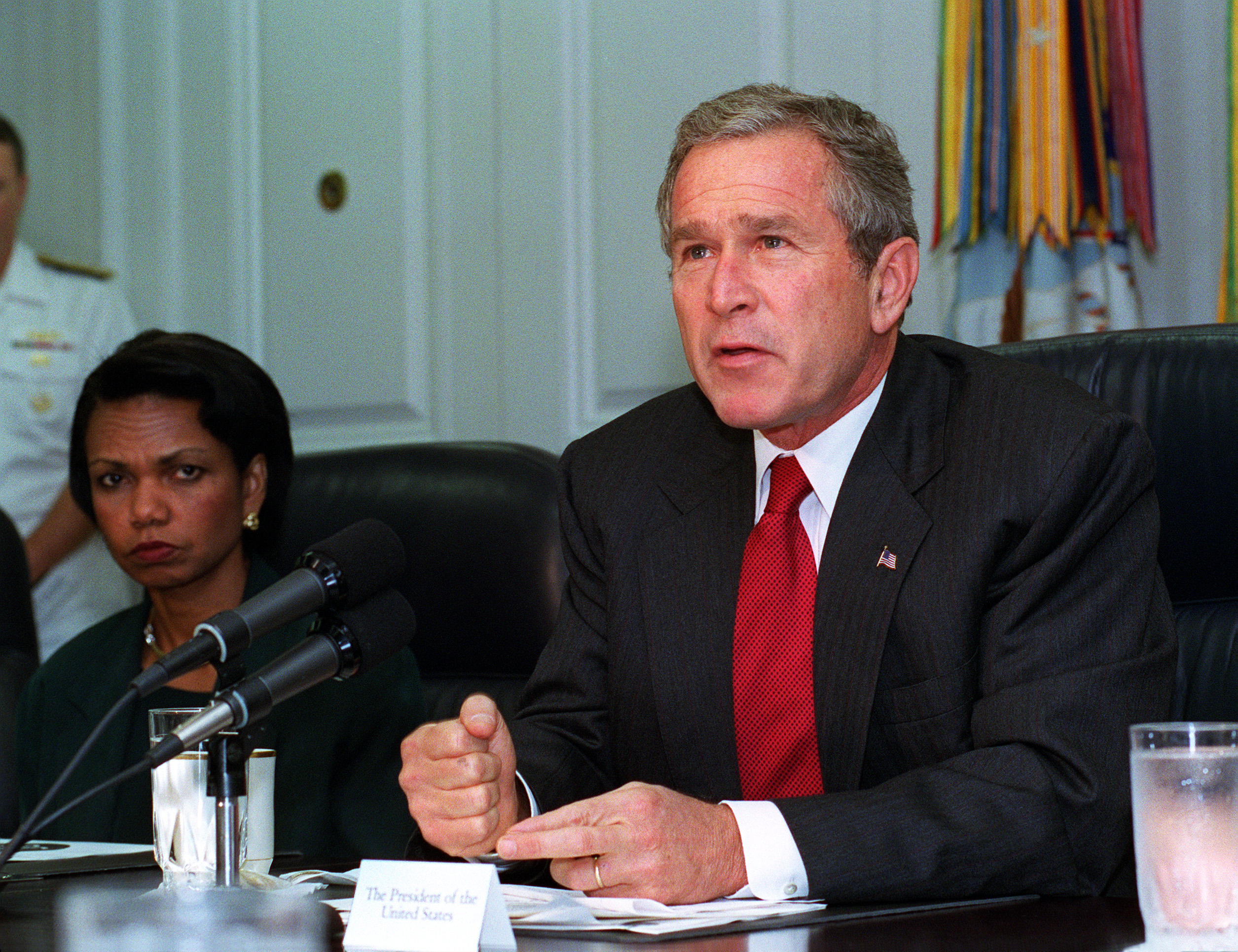 President George W. Bush addresses the media at the Pentagon on Sept. 17, 2001, following a meeting with his national security team and leaders of the National Guard and Reserve forces. Seated at the left is National Security Advisor Condoleezza Rice.